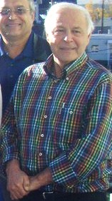 Nick Sibbeston, Canadian Senator from the Northwest Territories